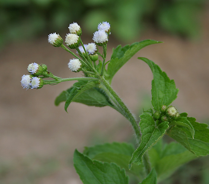 Mexican Ageratum, Yoat Weed, Billygoat-weed, Chick weed, Goatweed or Whiteweed Ageratum conyzoides in Narsapur, Medak district.